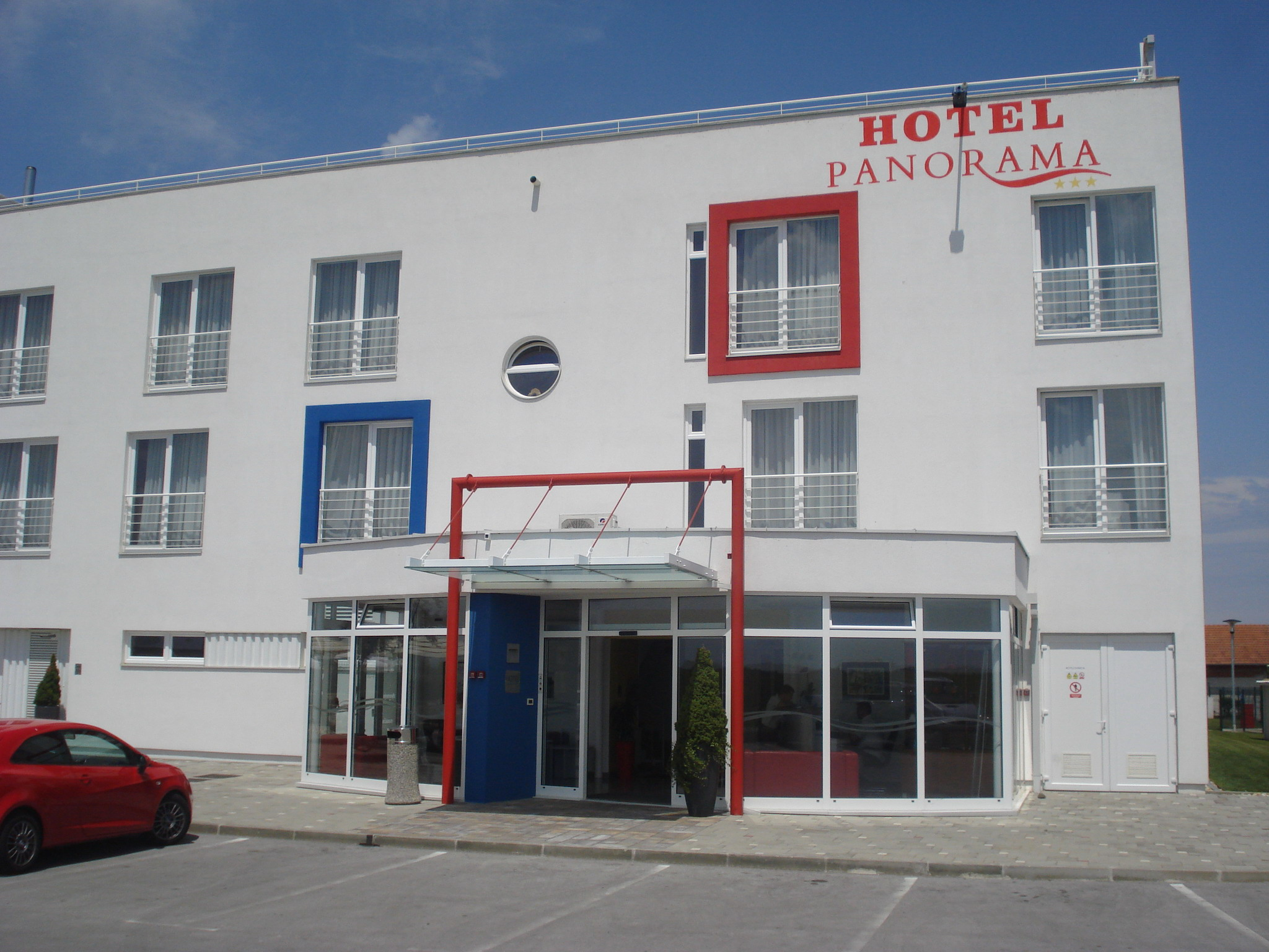 "Panorama" Hotel in Prelog, Međimurje County, Croatia - entranceHrvatski: Hotel "Panorama" u Prelogu, Međimurska županija, Hrvatska - ulaz